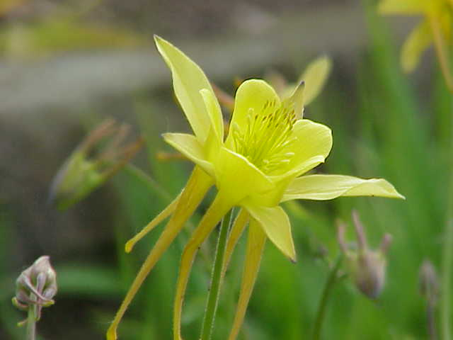 Species: Aquilegia chrysantha Family: Ranunculaceae Image No. 4